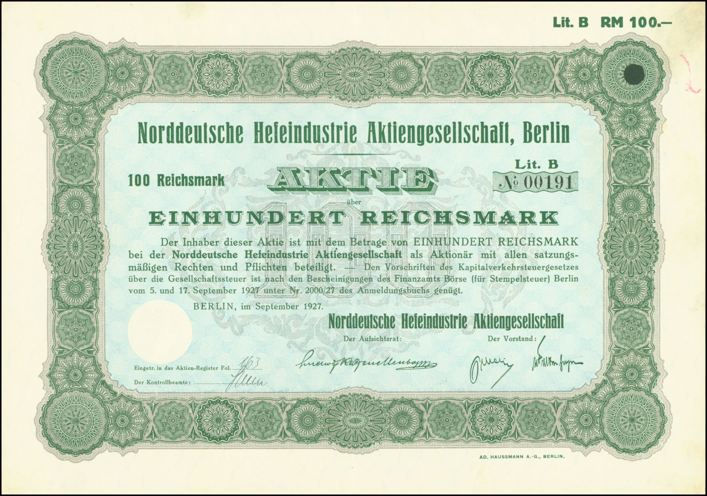 Share of the Norddeutsche Hefeindustrie AG, issued September 1927